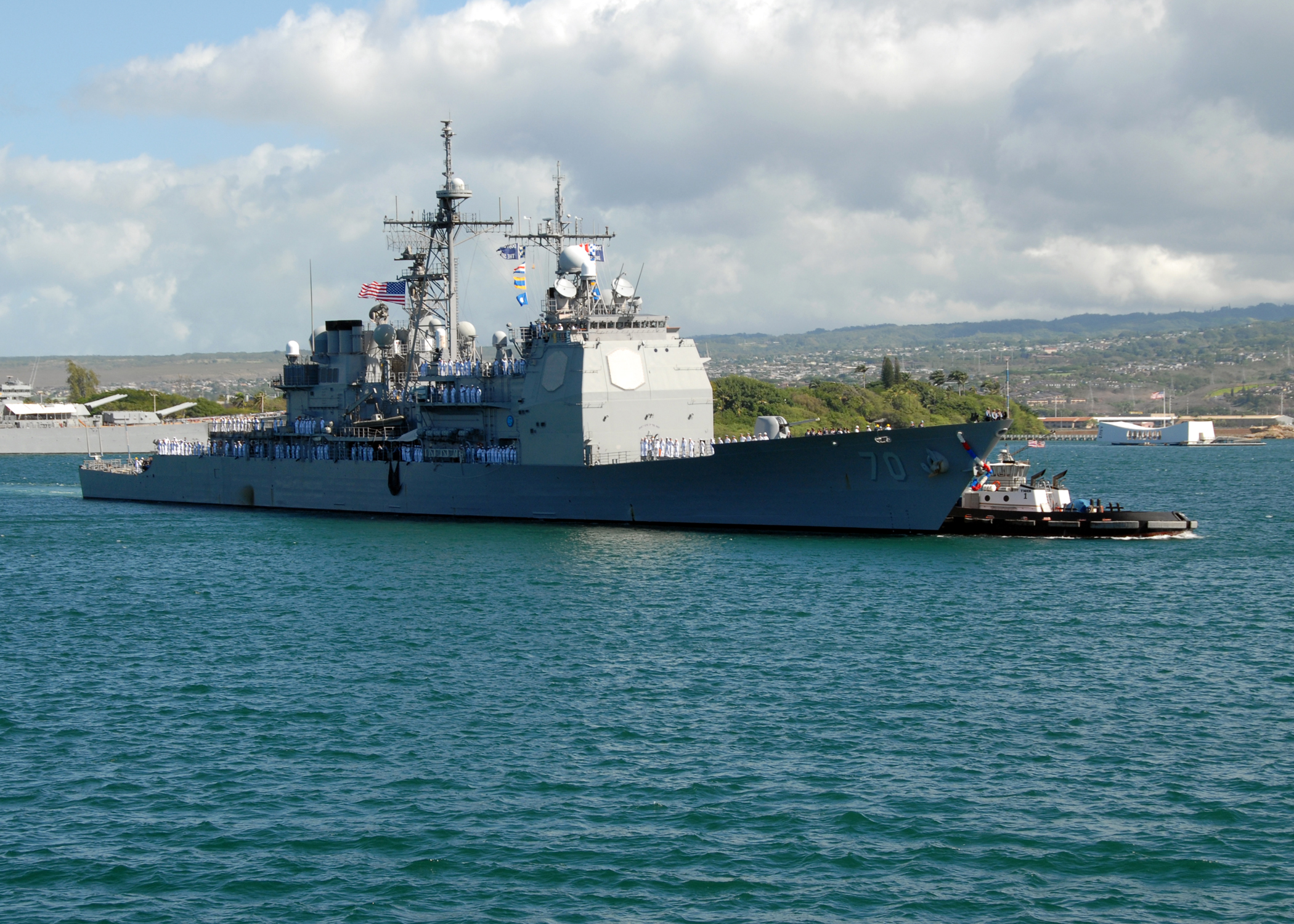 070904-N-4965F-002 PEARL HARBOR, Hawaii – The crew of guided-missile cruiser USS Lake Erie (CG 70) mans the rails as the ship returns home following a four-month deployment to the Western Pacific. While deployed, the ship took part in Exercise Talisman Saber and escorted aircraft carriers USS Kitty Hawk (CV 63), USS John C. Stennis (CVN 74) and USS Nimitz (CVN 68).